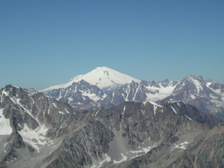 Mount Elbrus as seen from the Summit of Pik Ukju, Bezengi Region. What you see is the East peak which is actually lower that the west peak thats almost hidden on the left side.